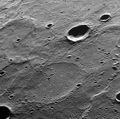 Aristoxenus crater (foreground) on Mercury. Ensor crater is in upper right. MESSENGER Wide Angle Camera image. North is to the left. Emission Angle: 52.7 Incidence Angle: 83.6 Latitude: 83.3 Longitude: 343.3 Phase Angle: 133.1